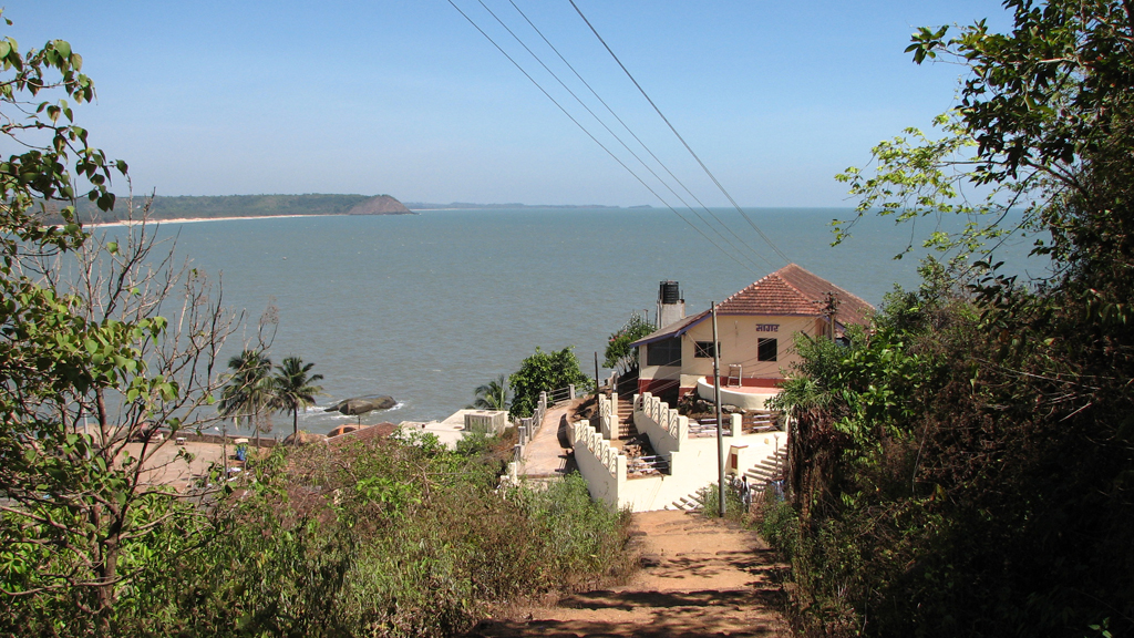 Nilesh Sutar